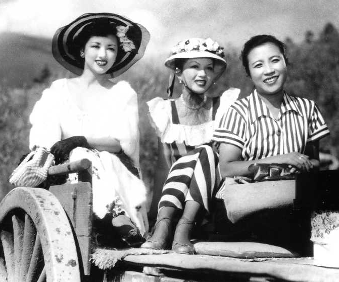 A scene from the motion picture Karumen Kokyo-ni Kaeru (1951, aka Carmen Comes Home ). From left, Hideko Takamine (1924– ), Toshiko Kobayashi (1932– ) and Yūko Mochizuki (1917–77).